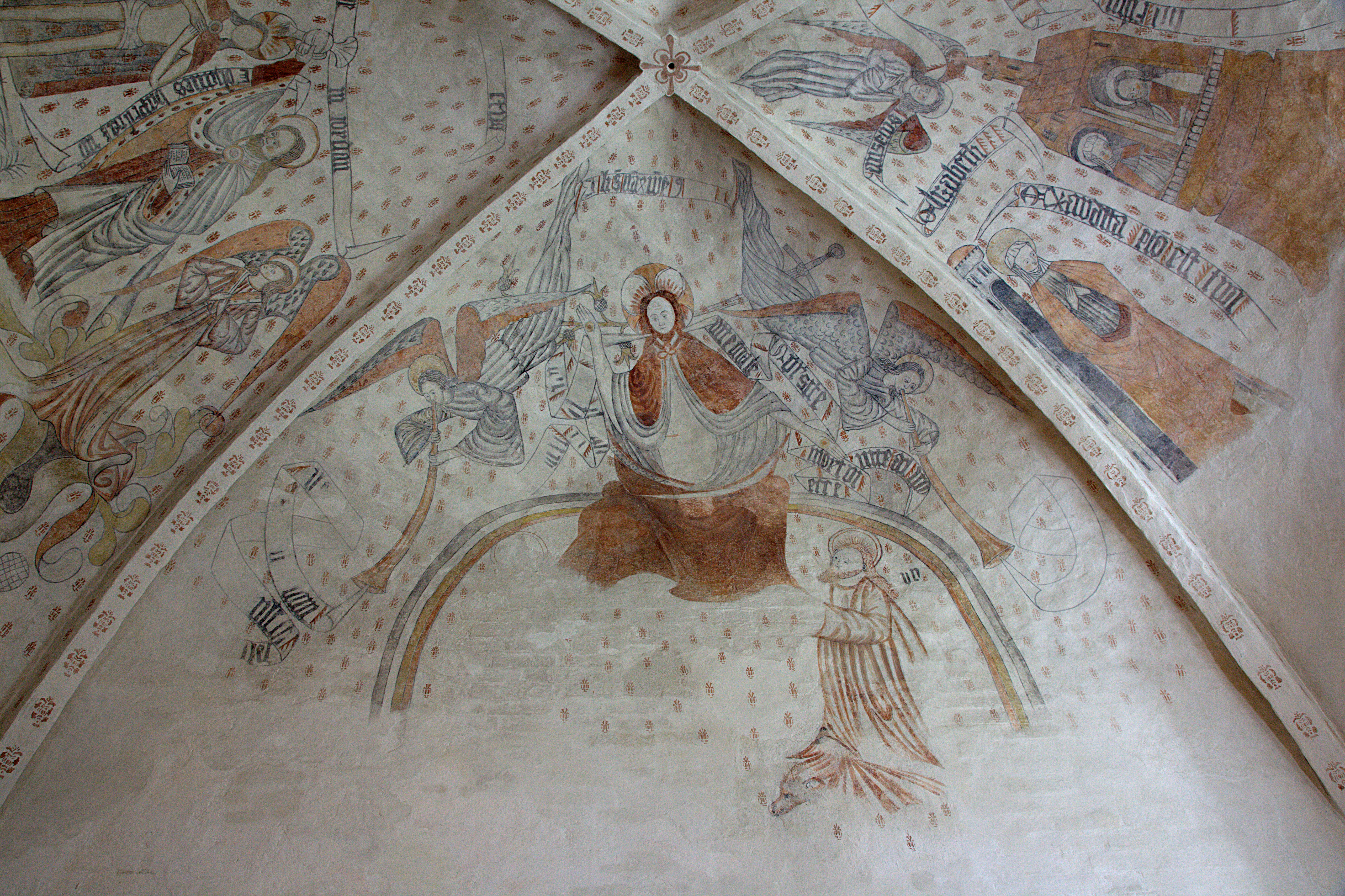 Fresco in Gunderup Kirke just south of Aalborg, Denmark